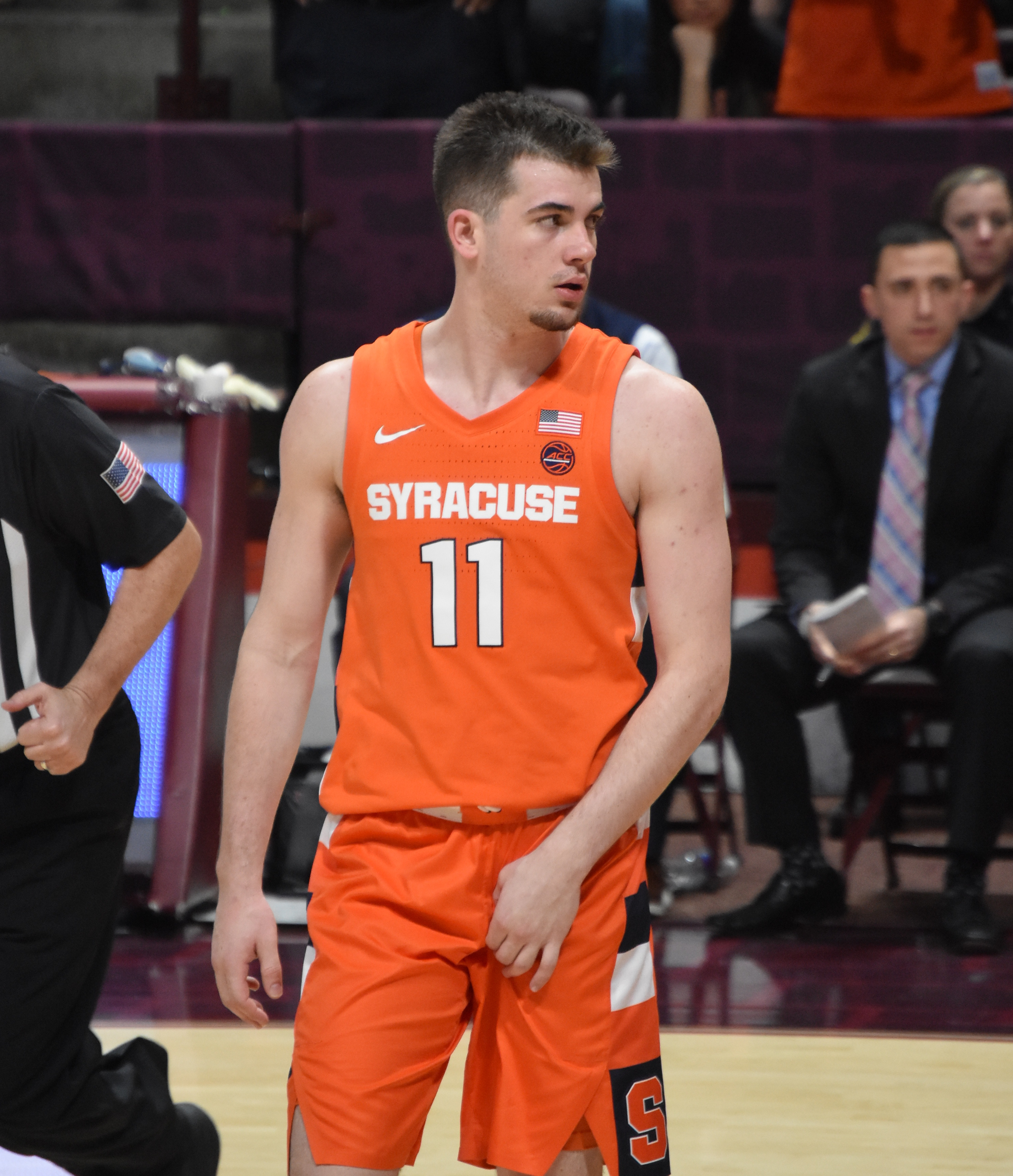 Joseph Girard on the floor for the Orange late in the game with Virginia Tech at Cassell Coliseum.